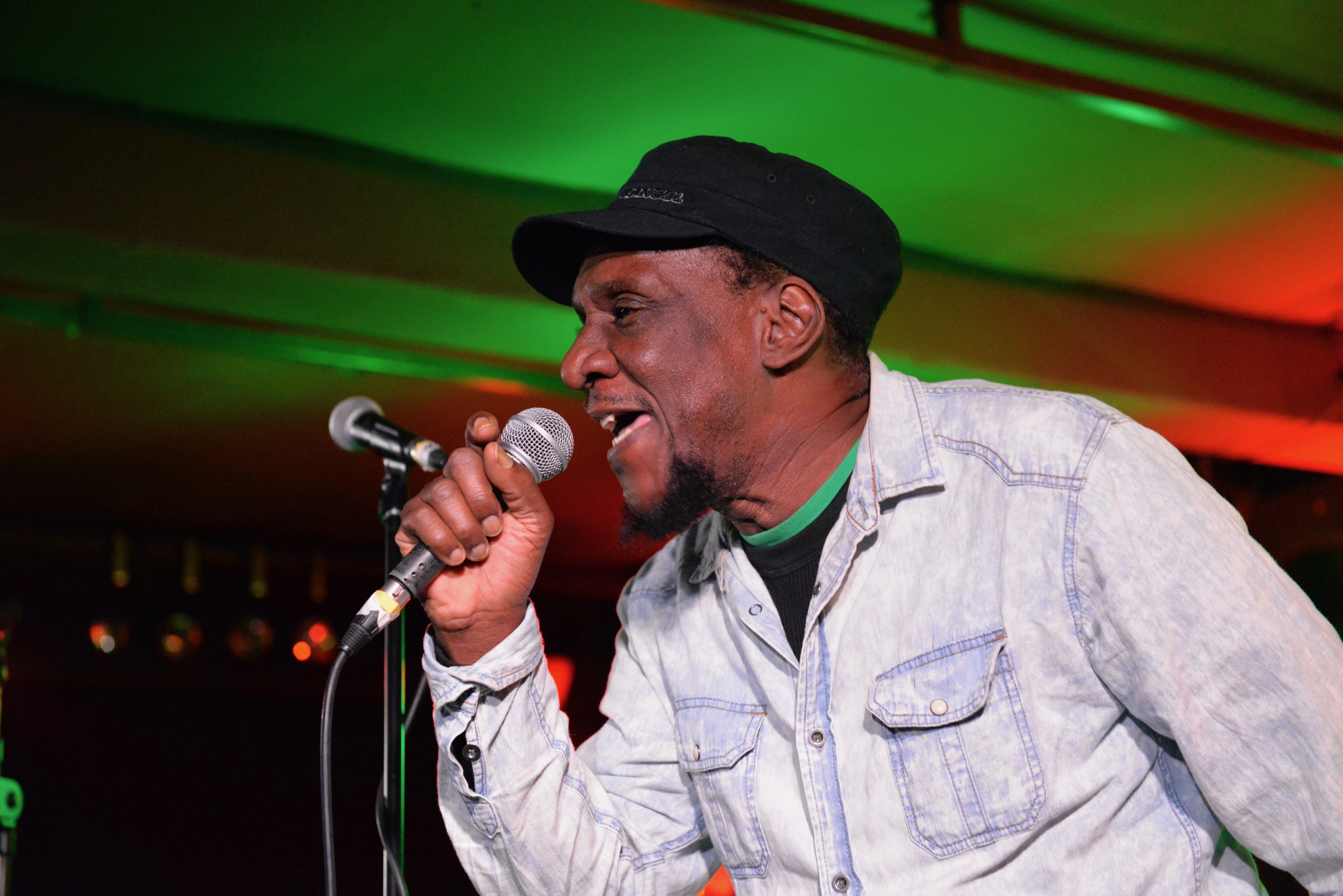 Linval Thompson, Eeklo N9, December 16 2018, Belgium.